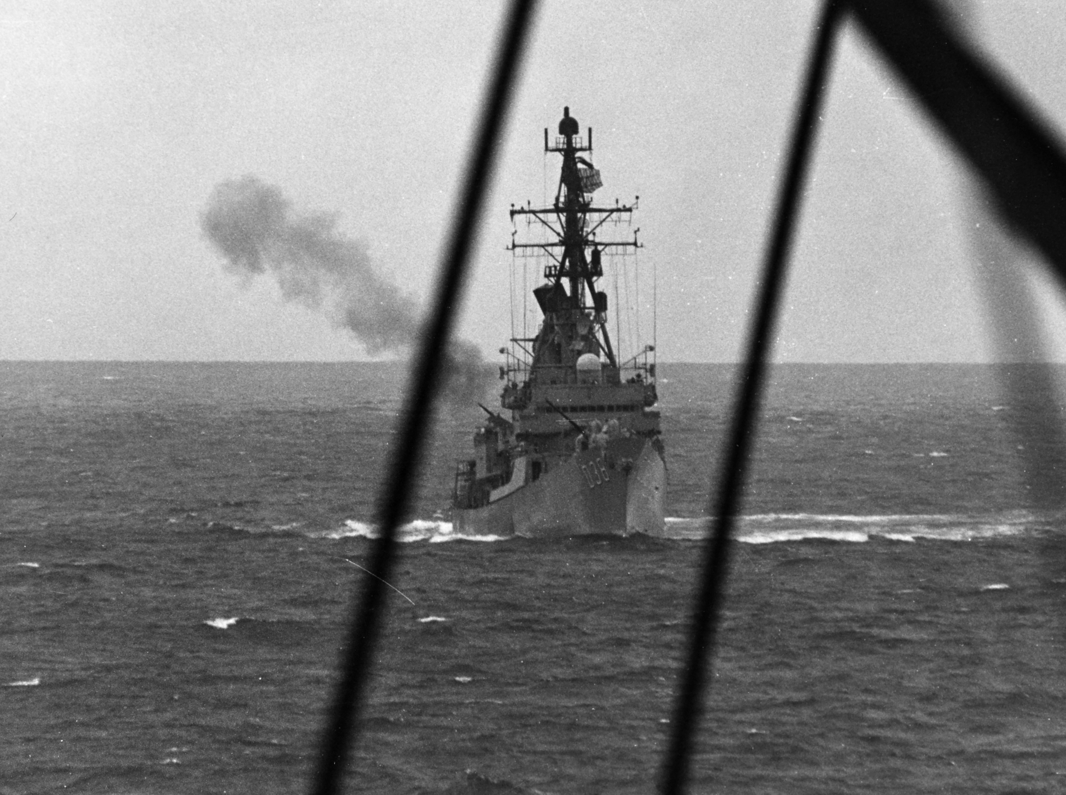 The Royal Australian Navy guided missile destroyer HMAS Perth (D 38) fires on North Vietnamese coastal defense sites from her station aft of the U.S. Navy heavy cruiser USS Newport News (CA-148) during an Operation Sea Dragon gunfire support mission, 23 February 1968.